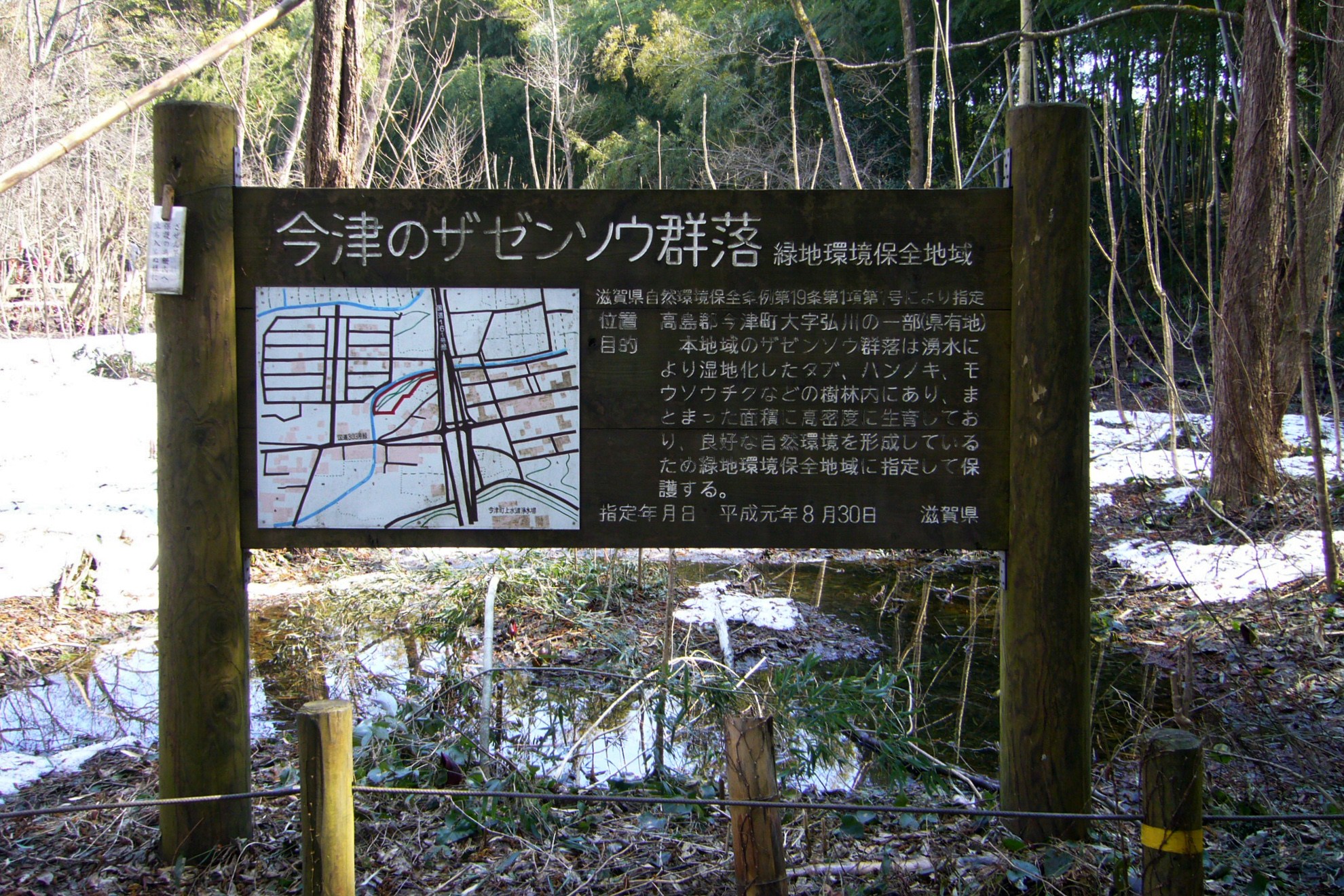 The Colony of Eastern Skunk Cabbage in Imazu, Takashima, Shiga prefecture, Japan